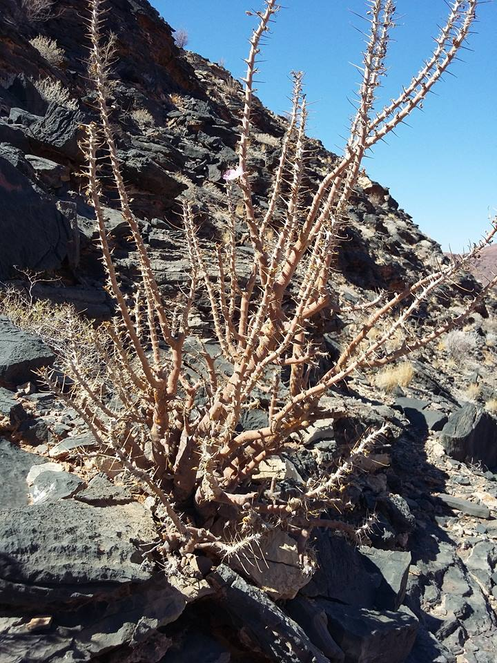 Sarcocaulon marlothii Engl. - Sossusvlei area, Namibia